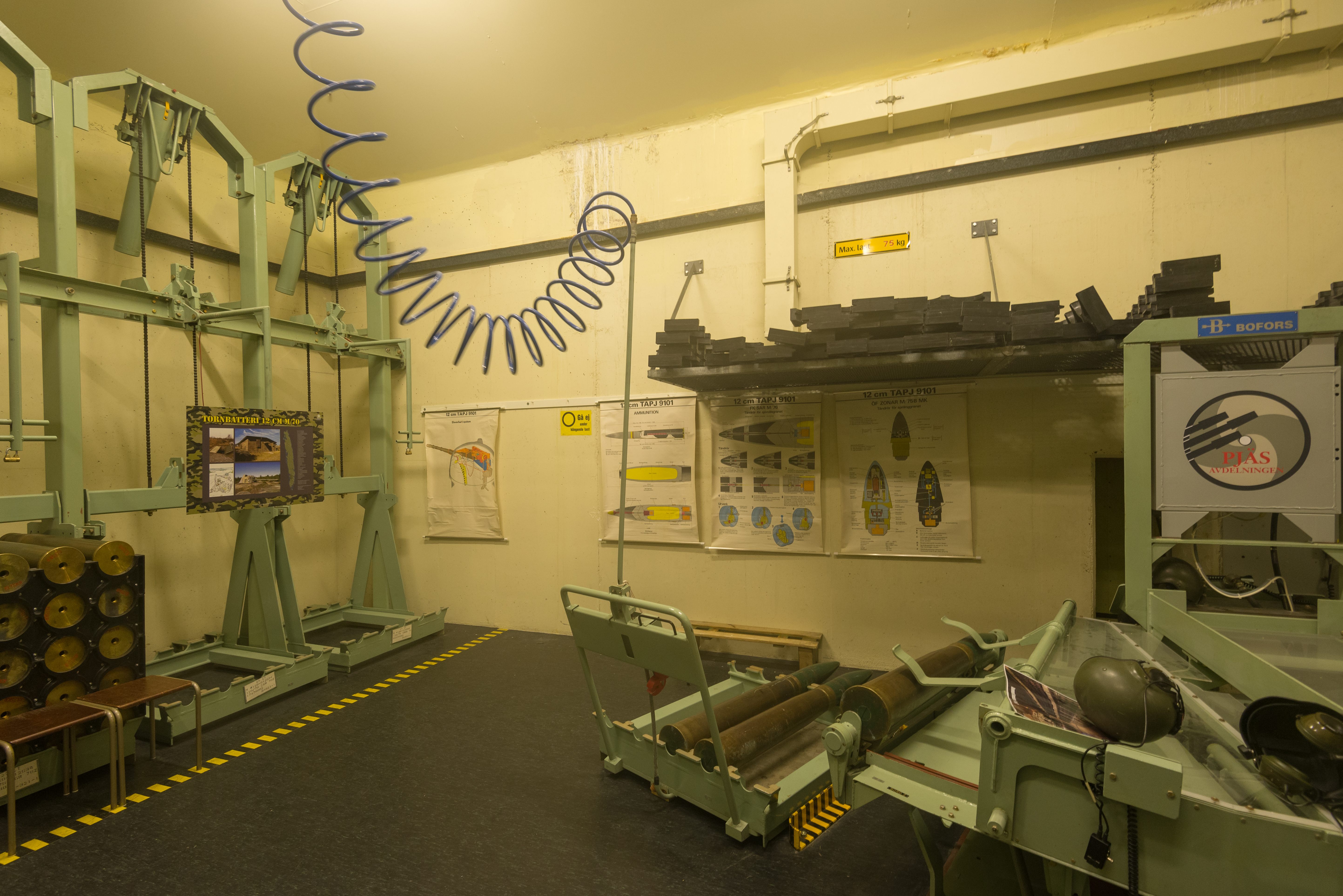 Interior of ERSTA-batteriet (Coastal artillery battery) at Landsort (Öja) in Stockholm archipelago. ERSTA was one of the Cold War’s most advanced military battery.